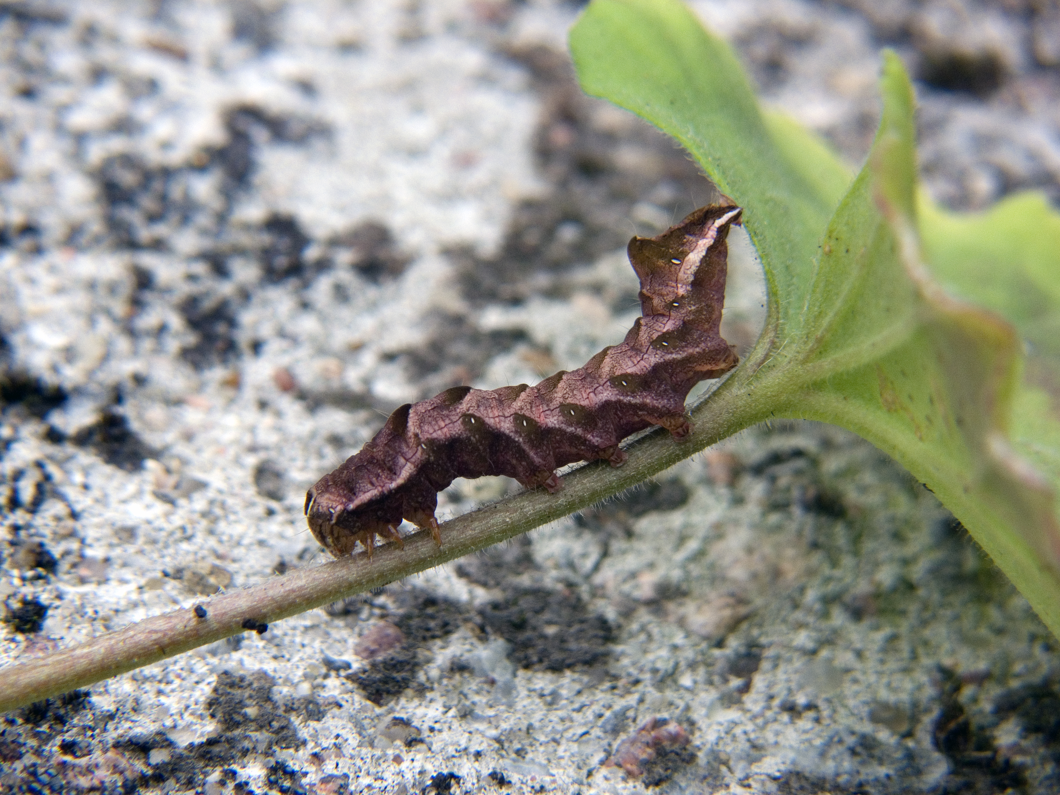 caterpillar of Melanchra persicariae